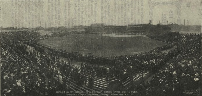 View of South Side Park in Chicago, Illinois, during the deciding game of the 1906 World Series.